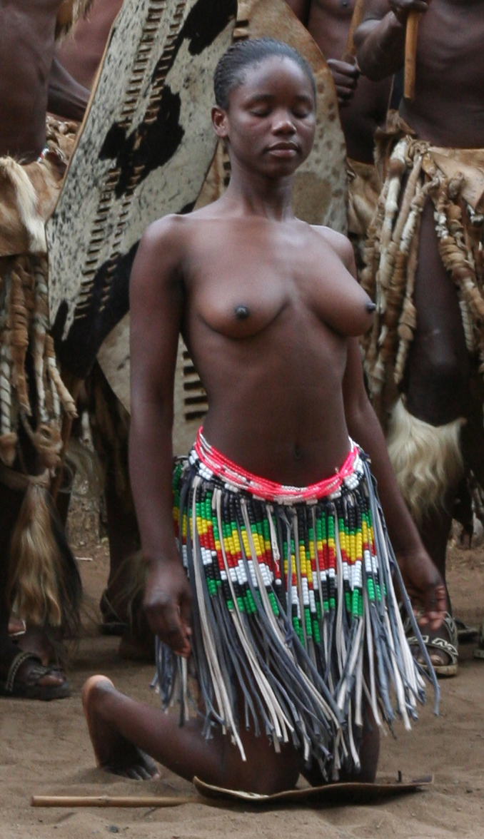 Zulus in South Africa during traditional dance.